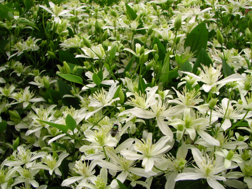 Clematis terniflora